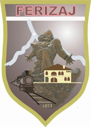 Coat of Arms of en:/Ferizaj municipality